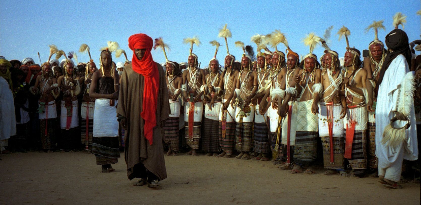 At the Gerewol festival, a Wodaabe maiden coyly reviews the contestants to choose a winner. Photographed 1997 in Niger.1997 #275-9 Gerewol